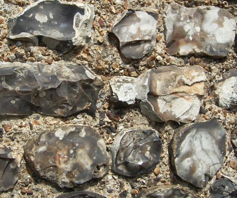 Flintstones, Wall of Canterbury Castle